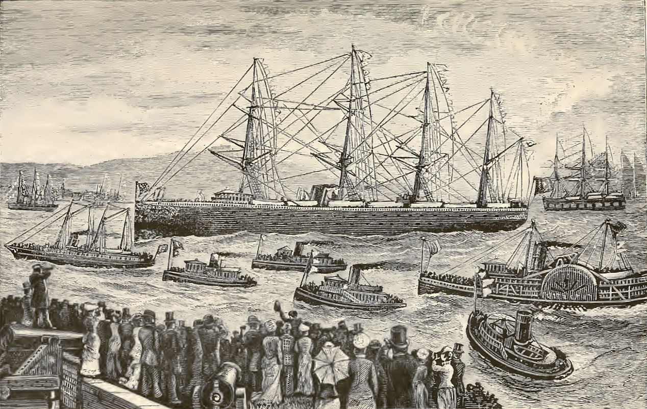 Image of ship bringing Ulysses S. Grant back to the United States from his world tour, arriving at San Francisco, 1879